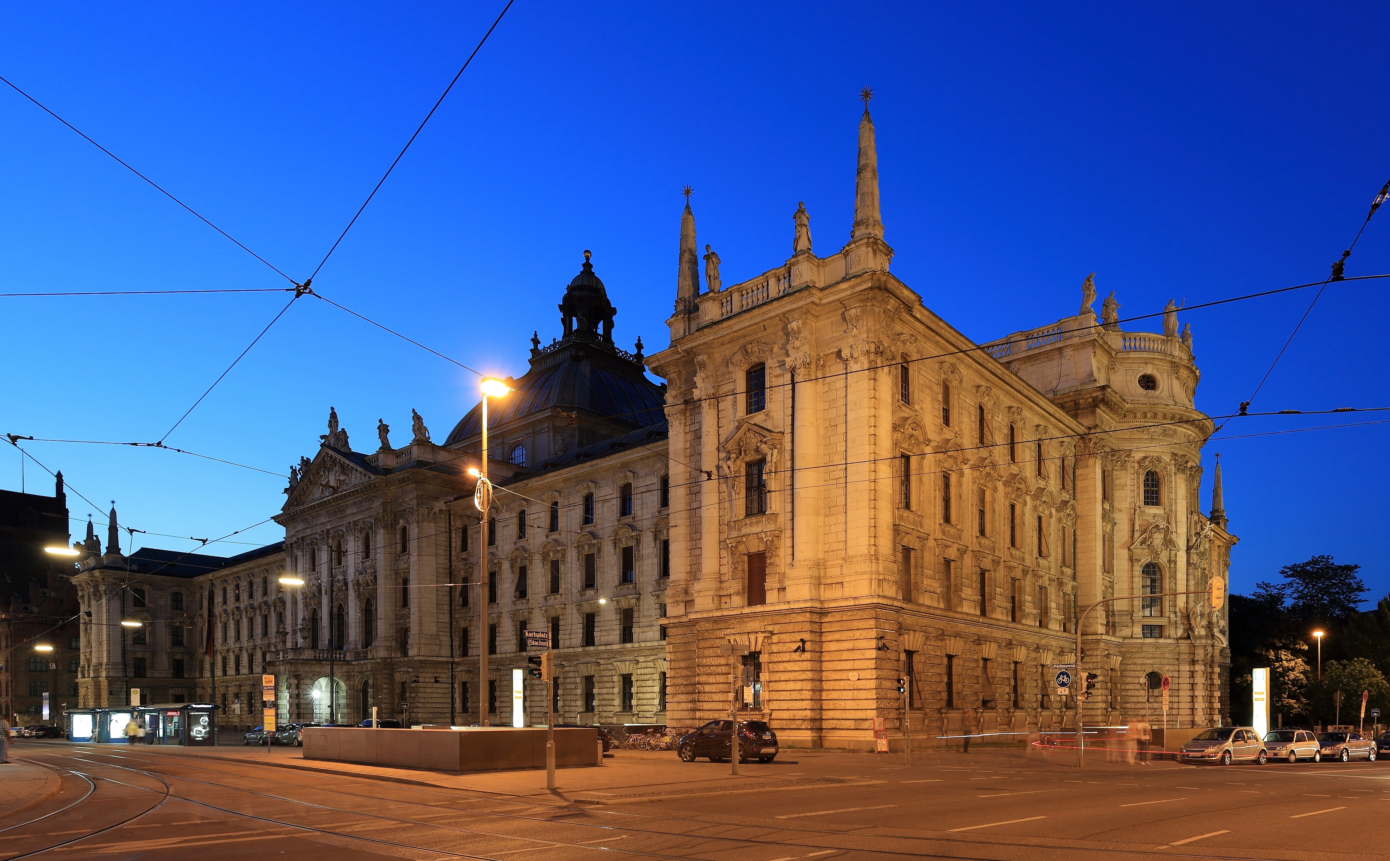 Palace of Justice, Munich, at dusk